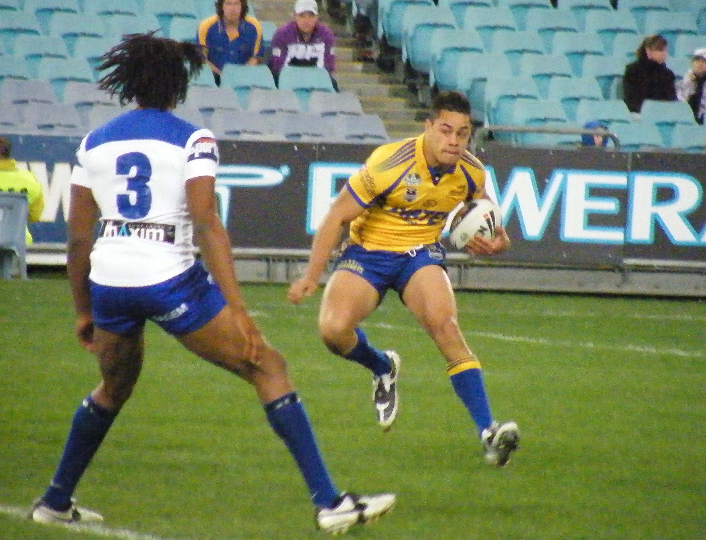 Parramatta's Jarryd Hayne puts a step on Canterbury debutant Jamal Idris.